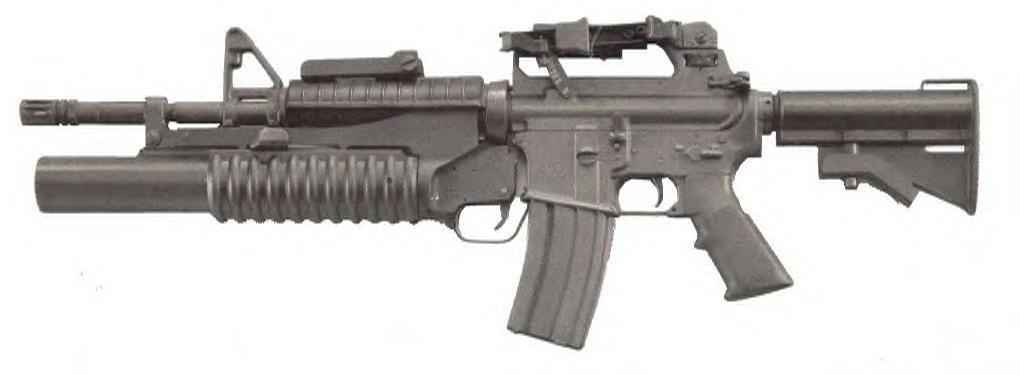 M4 Carbine with M203 Grenade Launcher Attached.